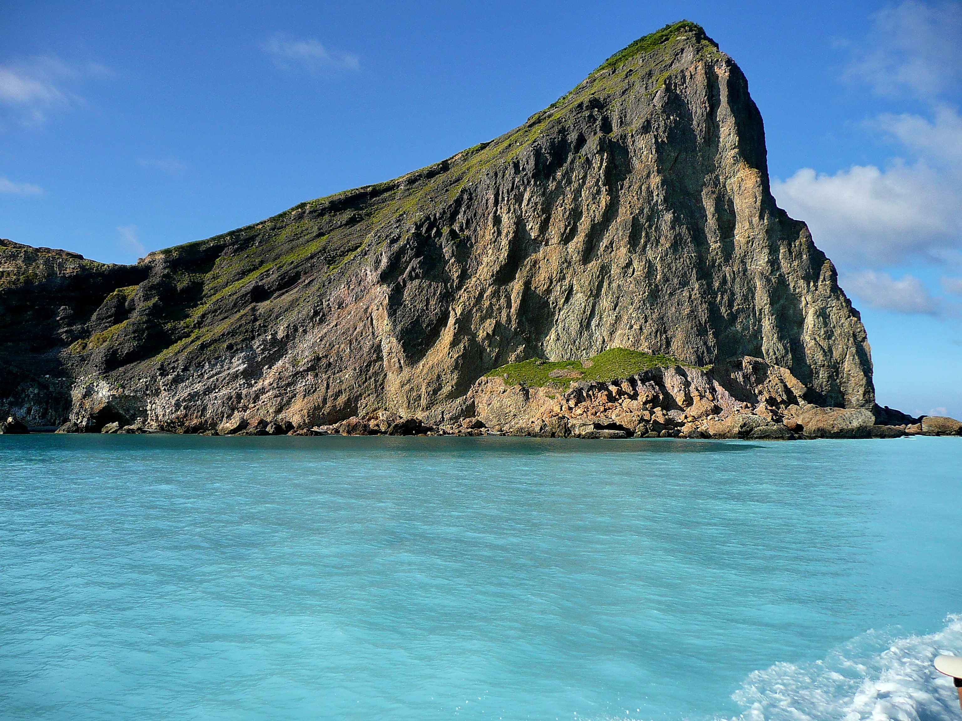 The Head of Turtle Island 龜山島頭部